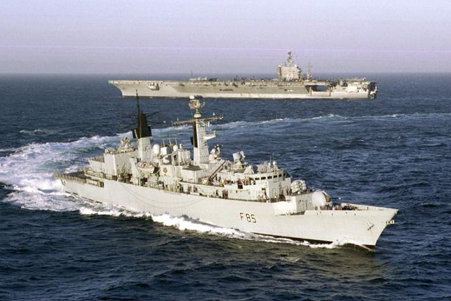 from